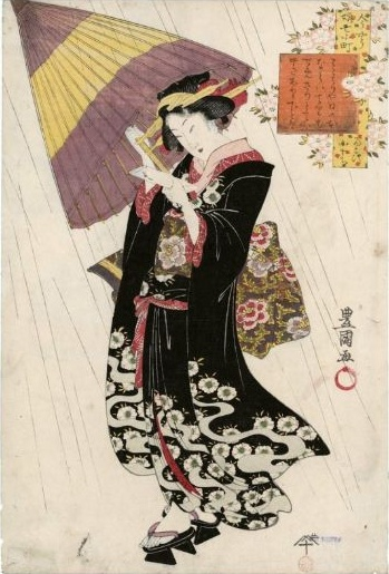 Komachi Praying for Rain, from the series “Modern Girls as the Seven Komachi“ by Toyokuni I, c. 1810